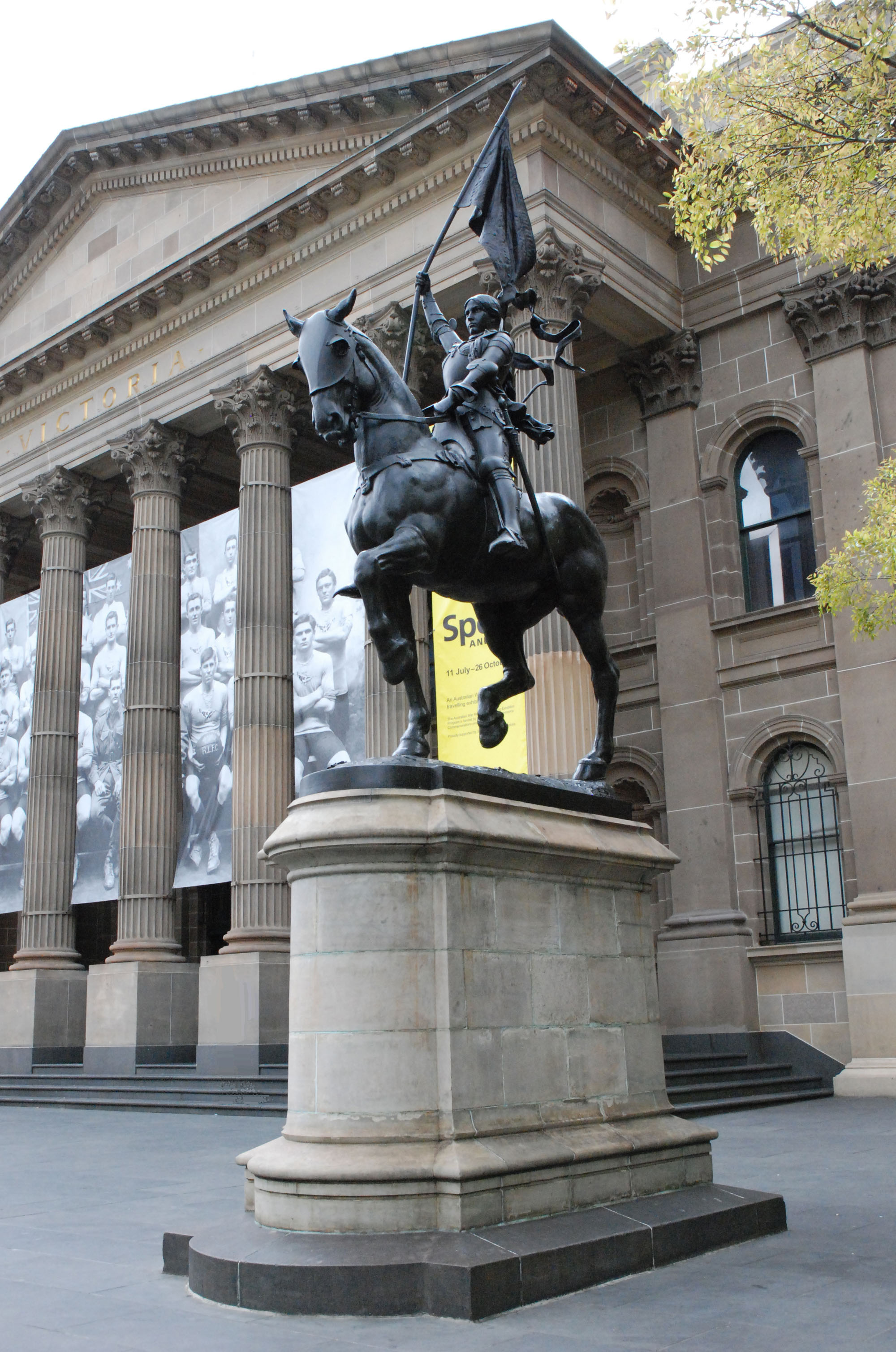 Statue of Joan of Arc in Melbourne, in front of the State Library of Victoria